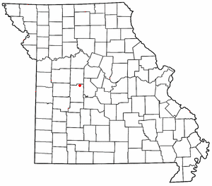 Modified from a map on Wikipedia.